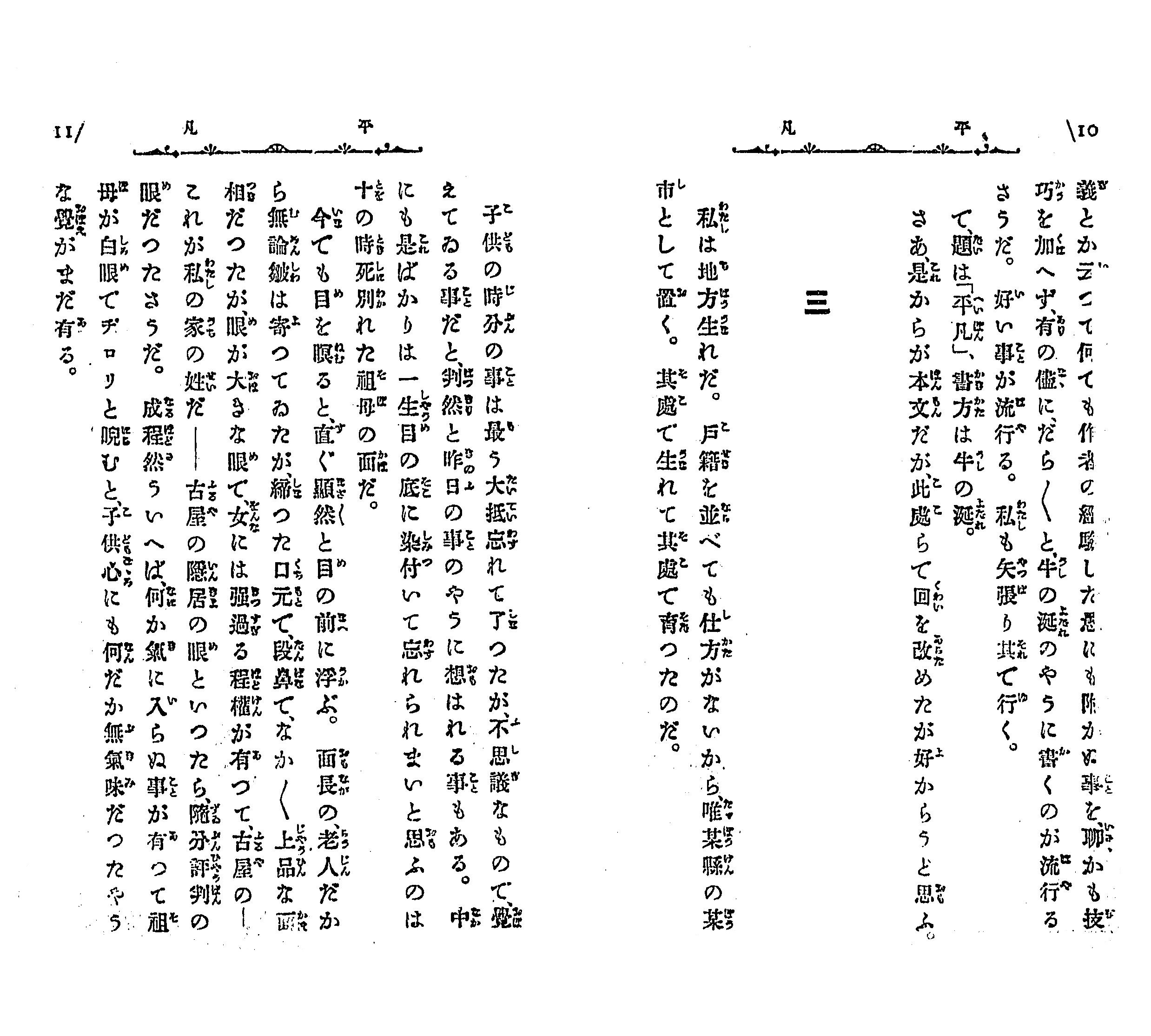 Japanese novel using 漢字仮名交じり文, most general orthography for modern Japanese writing system. Ruby characters are also used for Kanji words. Published in 1908.